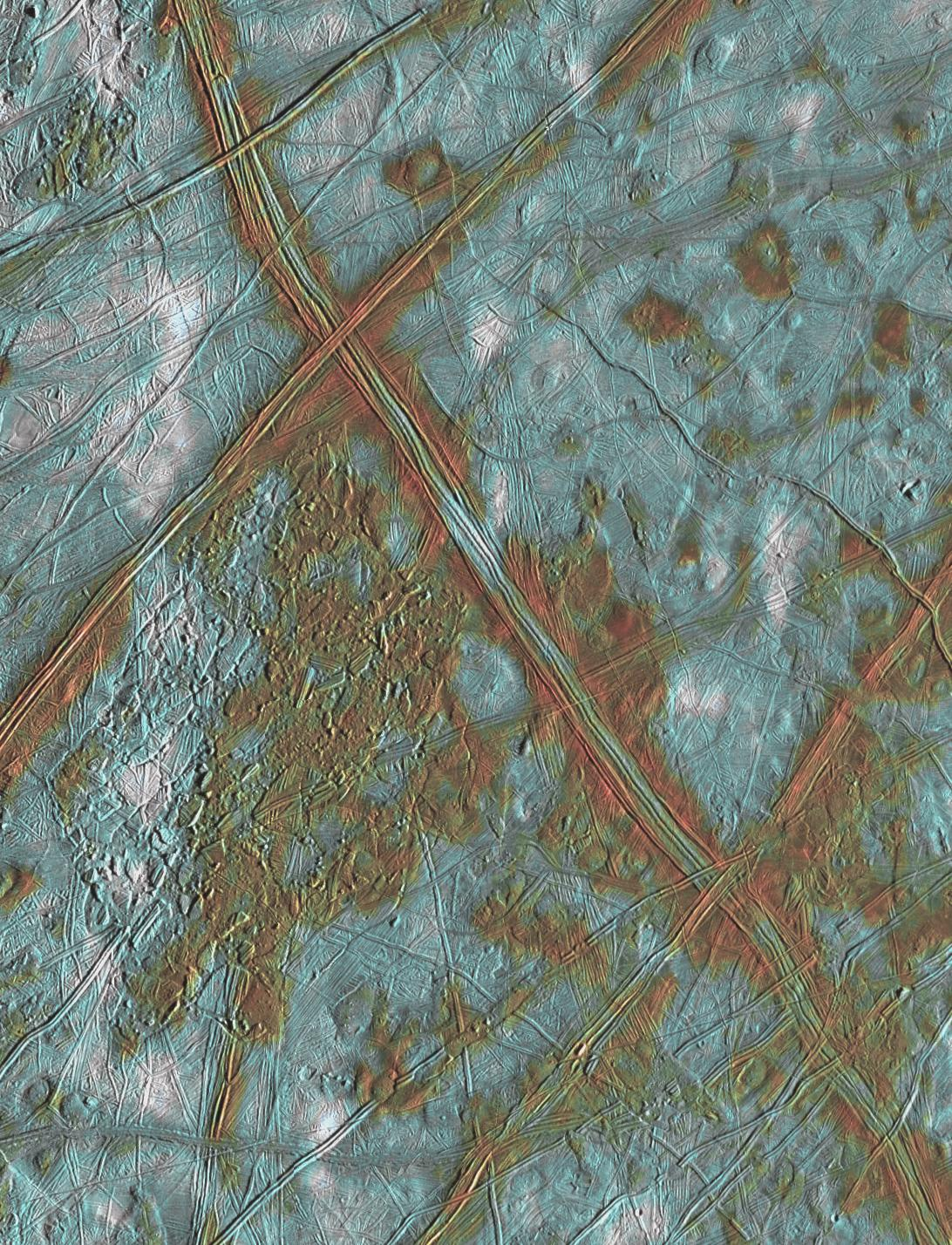 This image of Jupiter's icy satellite Europa shows surface features such as domes and ridges, as well as a region of disrupted terrain including crustal plates which are thought to have broken apart and "rafted" into new positions. The image covers an area of Europa's surface about 250 by 200 kilometer (km) and is centered at 10 degrees latitude, 271 degrees longitude. The color information allows the surface to be divided into three distinct spectral units. The bright white areas are ejecta rays from the relatively young crater Pwyll, which is located about 1000 km to the south (bottom) of this image. These patchy deposits appear to be superposed on other areas of the surface, and thus are thought to be the youngest features present. Also visible are reddish areas which correspond to locations where non-ice components are present. This coloring can be seen along the ridges, in the region of disrupted terrain in the center of the image, and near the dome-like features where the surface may have been thermally altered. Thus, areas associated with internal geologic activity appear reddish. The third distinct color unit is bright blue, and corresponds to the relatively old icy plains. This product combines data taken by the Solid State Imaging (SSI) system on NASA's Galileo spacecraft during three separate flybys of Europa. Low resolution color data (violet, green, and 1 micron) acquired in September 1996 were combined with medium resolution images from December 1996, to produce synthetic color images. These were then combined with a high resolution mosaic of images acquired in February 1997.